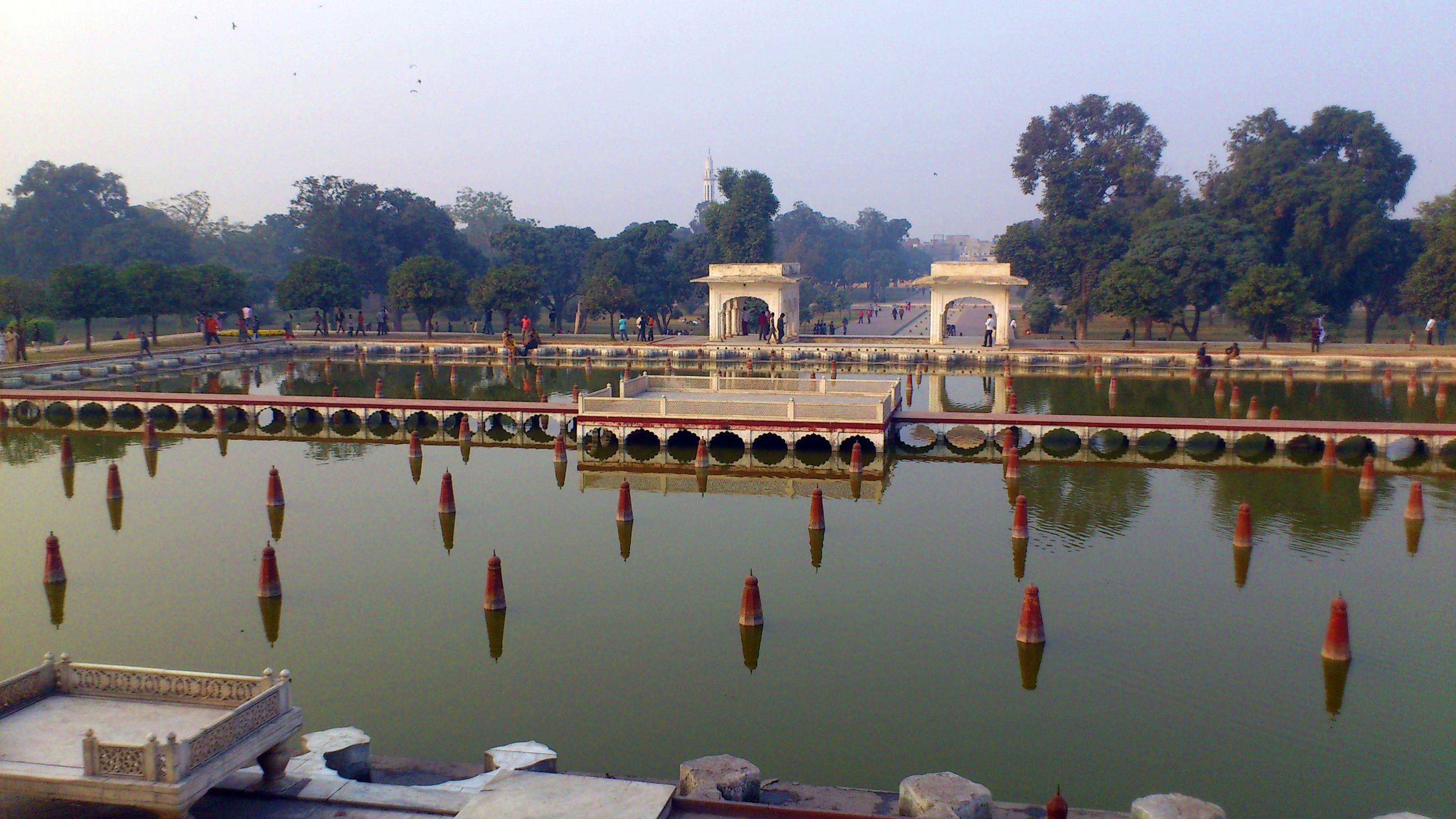 View of Shalimar Gardens, Lahore